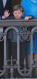 Picture showing the Royal Family of Denmark during Queen Margrethe II 70th birthday, 16 April 2010